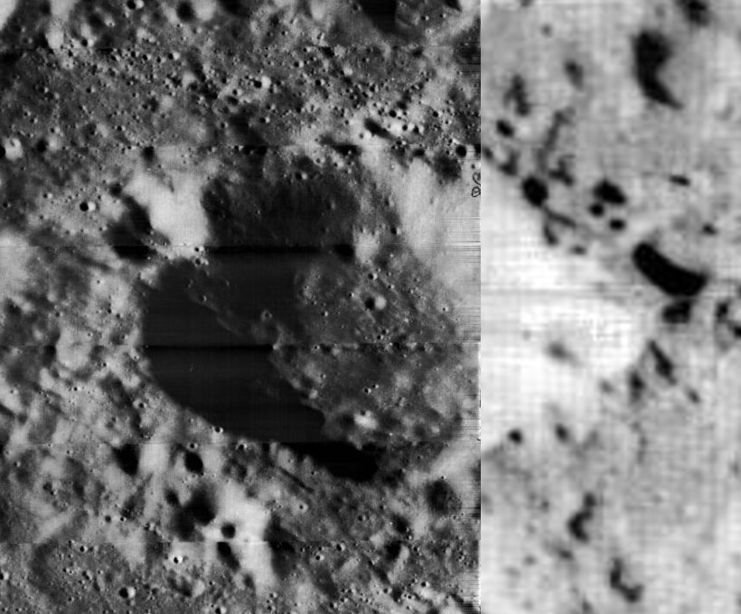 Šafařík, on the far side of the moon. This is a mosaic of a scaled-up medium resolution frame (right third) and a high resolution frame, completed to show the entire crater.